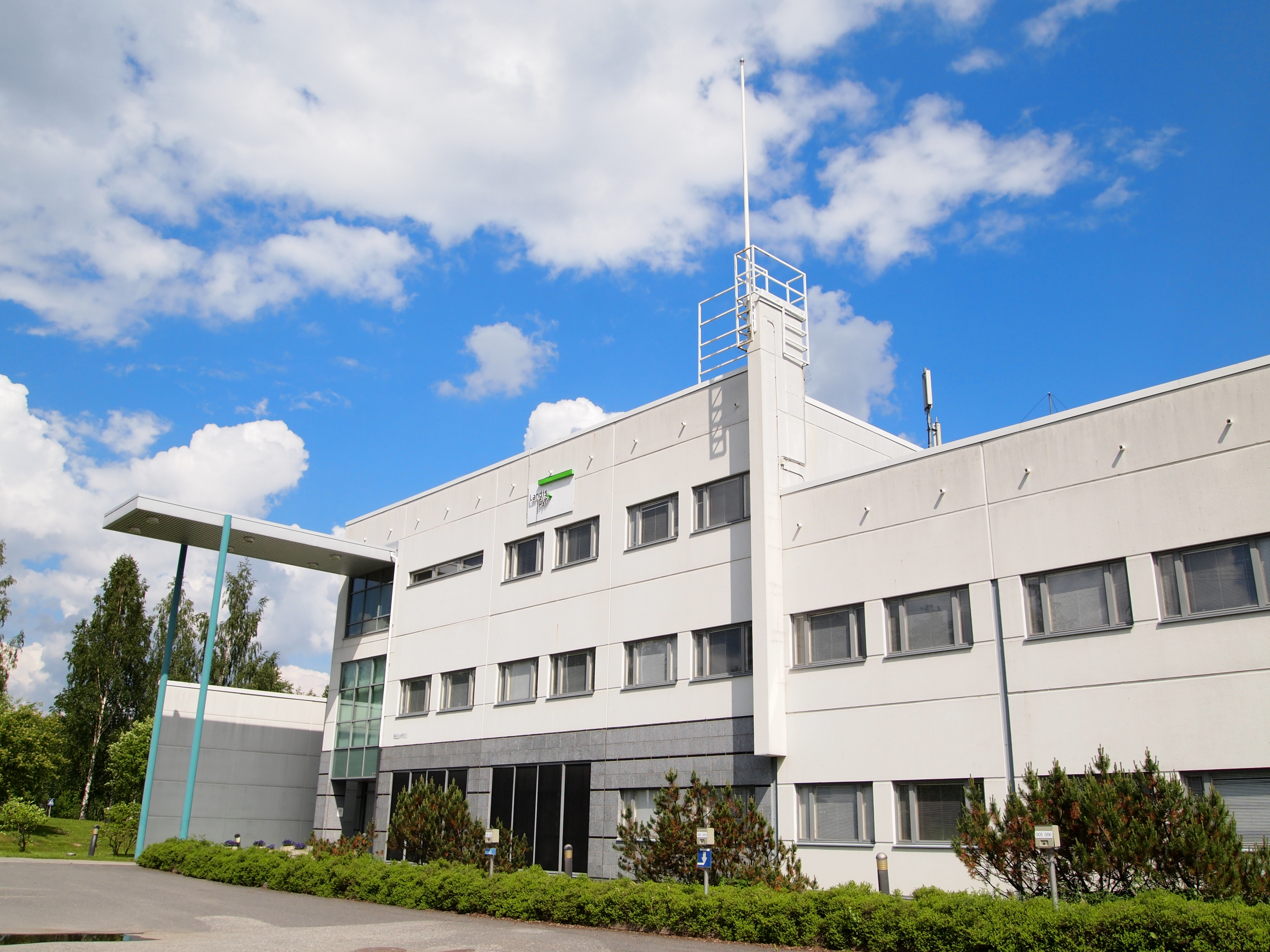 Landis+Gyr company in Jyväskylä. This photograph was taken with an Olympus E-PL1